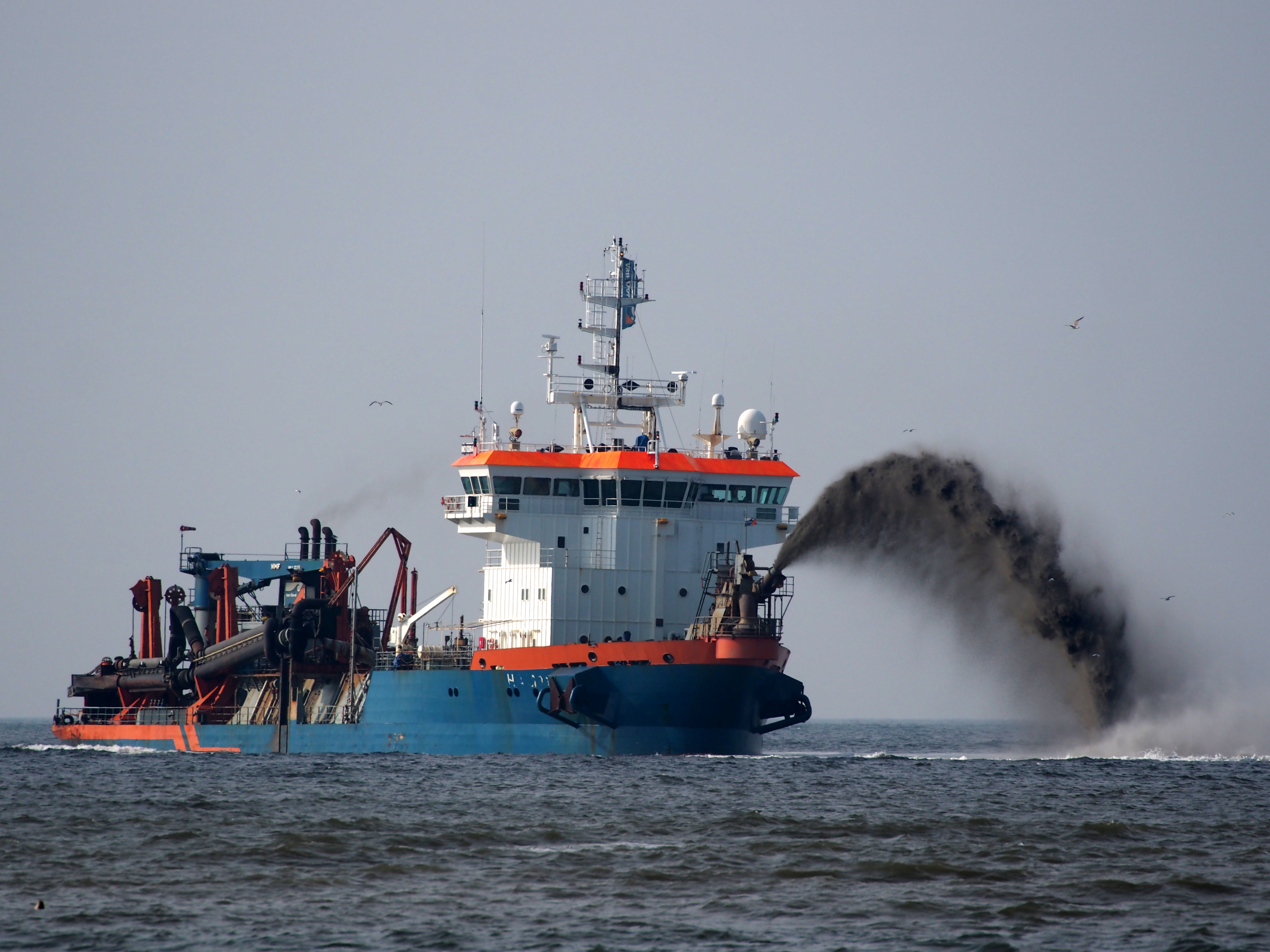 HAM 317, IMO 9208497 at the Northsea near Petten, The Netherlands.